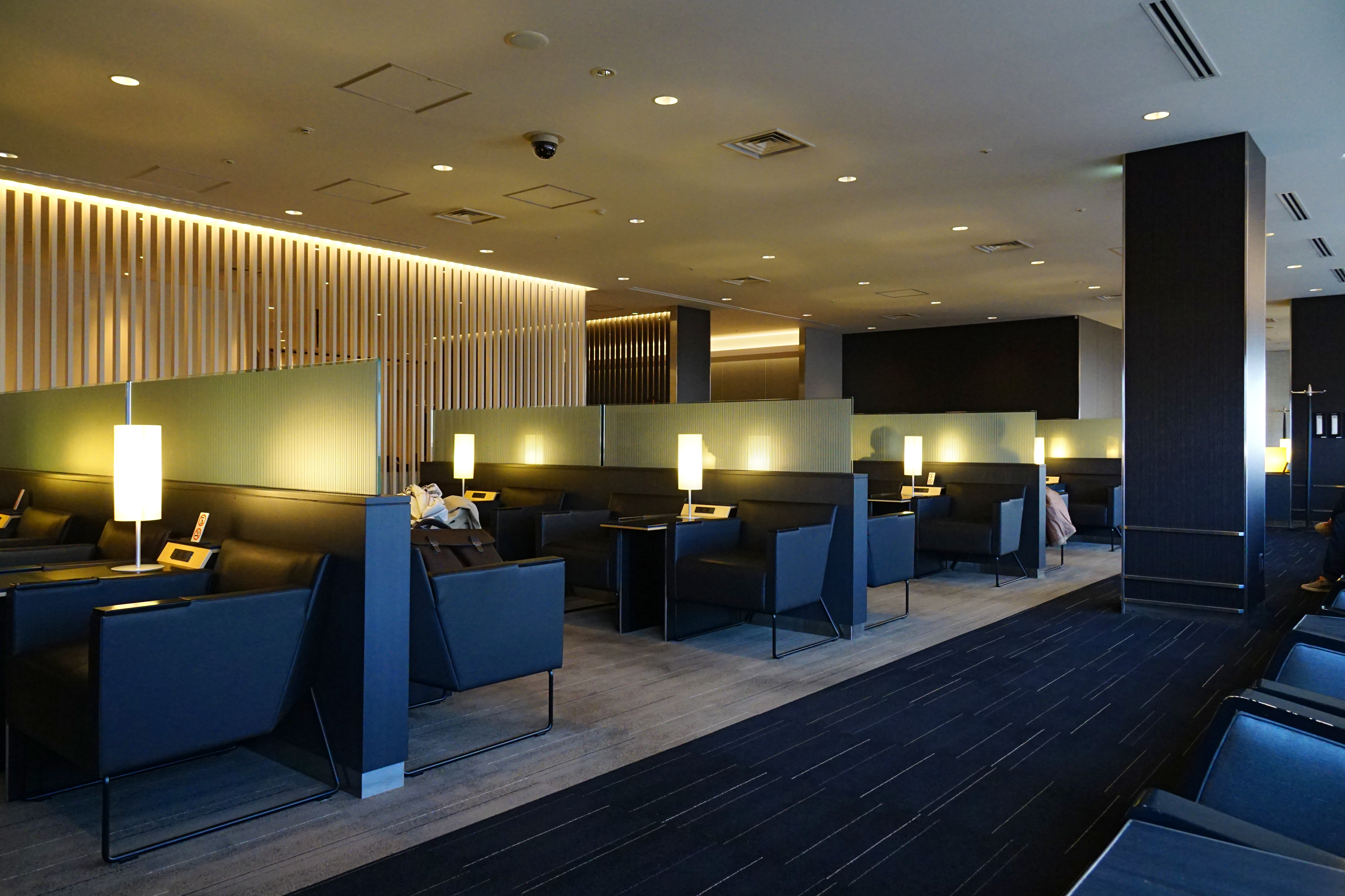 ANA Suite Lounge of Osaka International Airport in Itami, Hyogo prefecture, Japan.